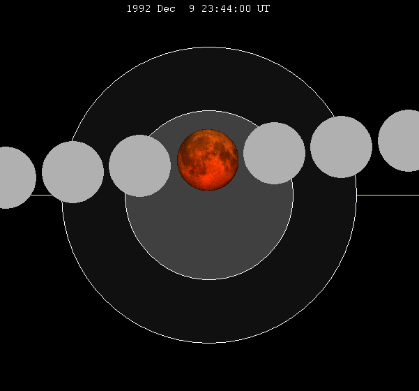 December 1992 lunar eclipse chart of moon's total lunar eclipse path through the earth's shadow. thumb